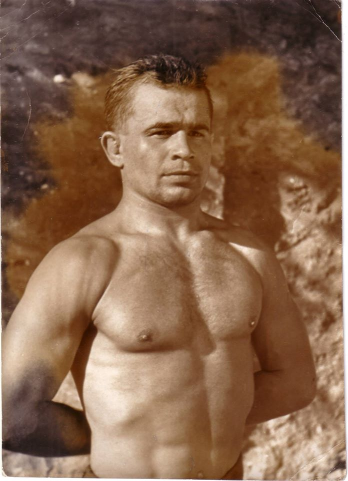 Hoffmann Géza wrestler in 1954